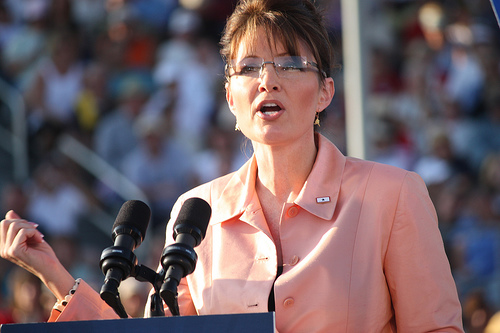 Sarah Palin at a McCain/Palin rally in Washington, Pennsylvania on August 30, 2008